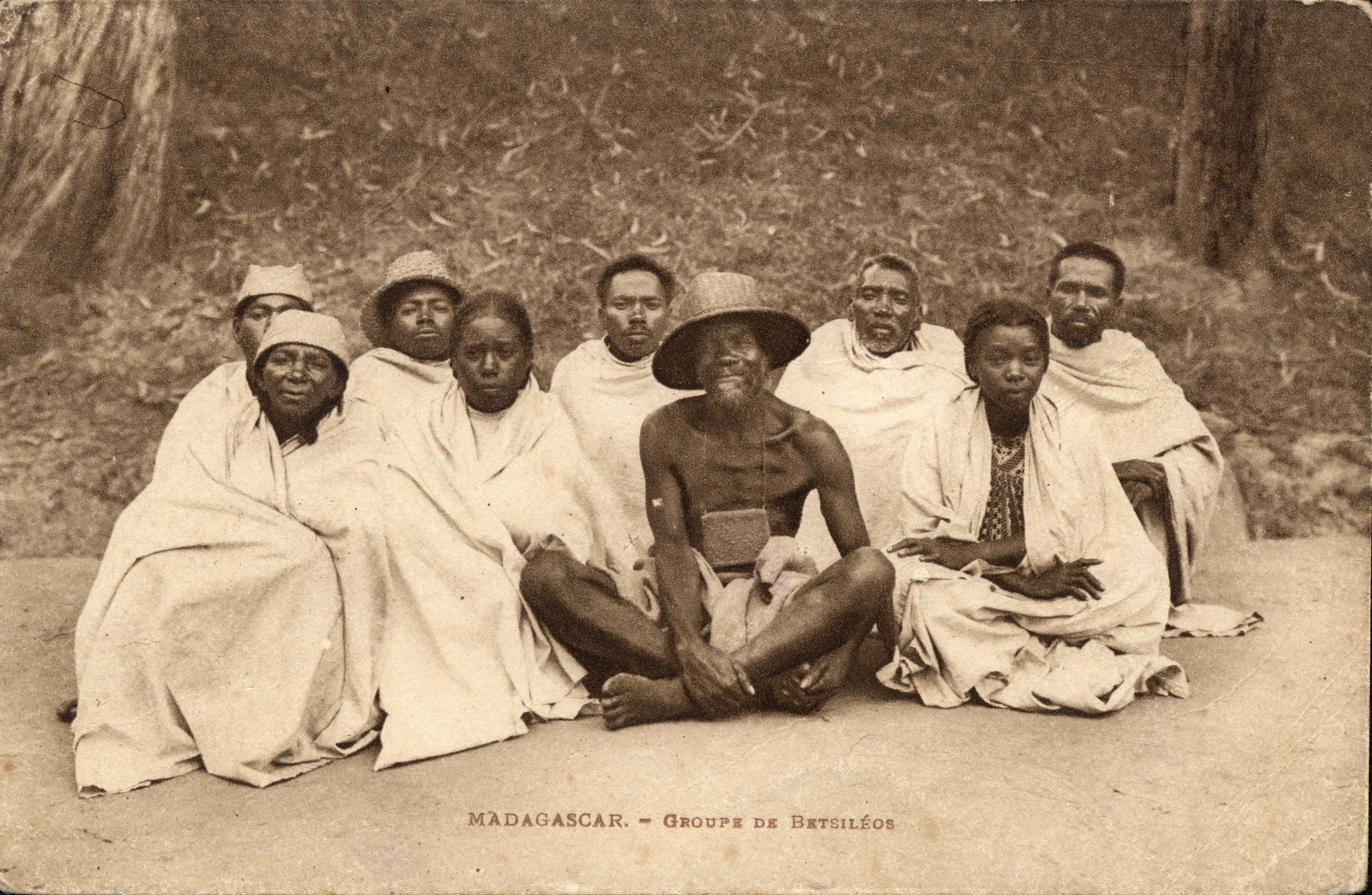 Betsileo people, Madagascar, 1908